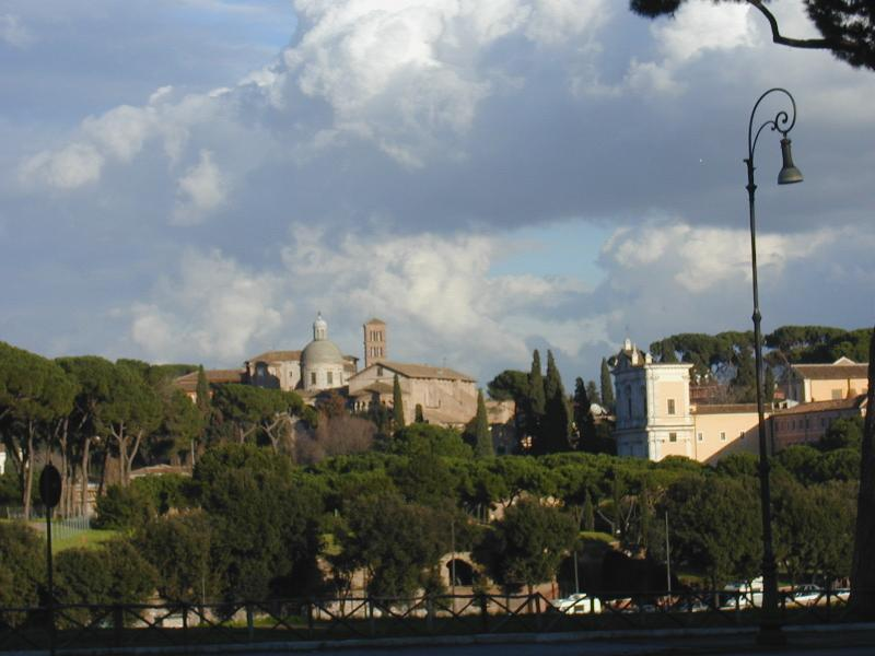 Rome, Celio: St. Gregory the complex (right) and Saints John and Paul (left) from the Circus Maximus